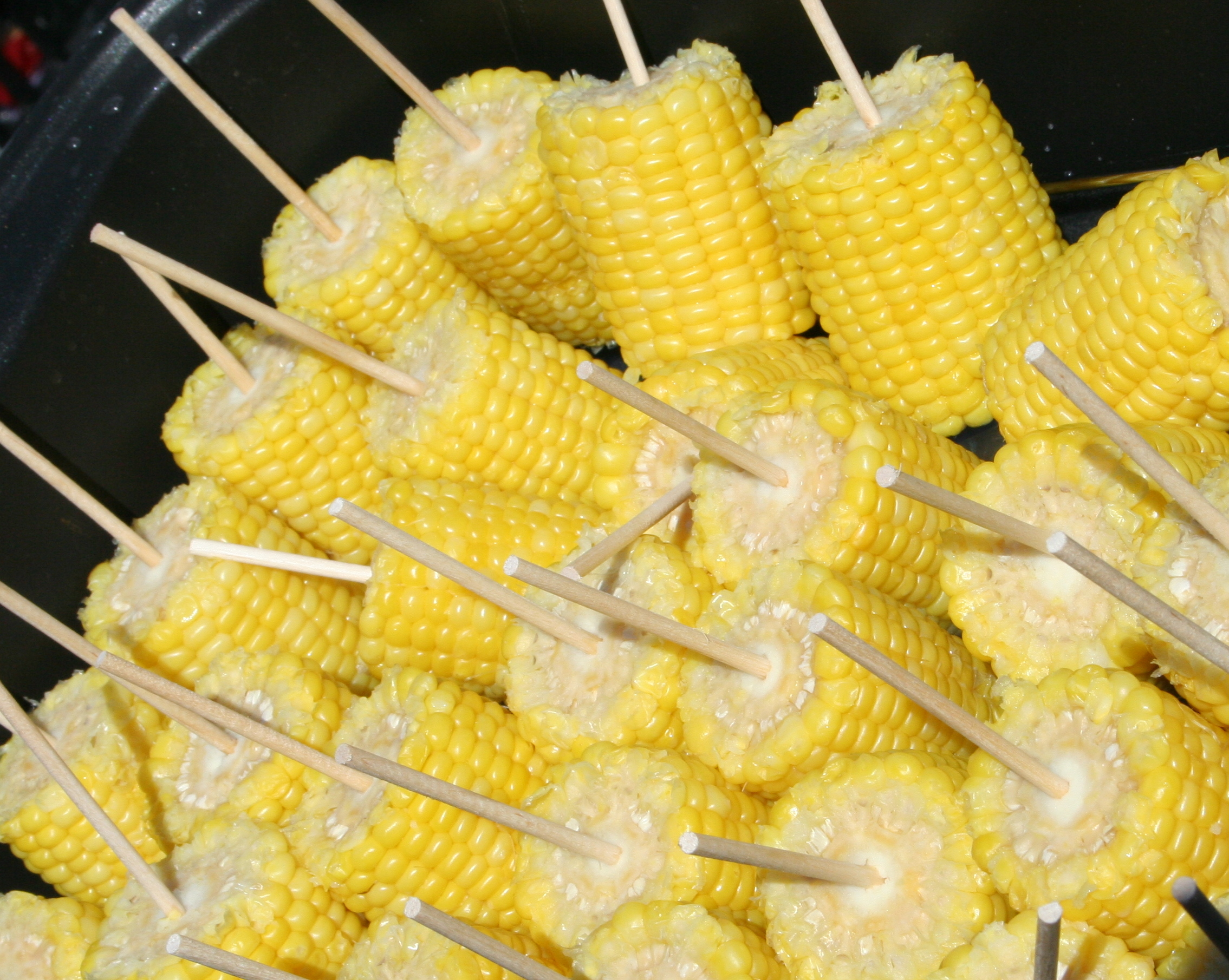 Ears of corn on the cob with sticks, cooked and ready to eat.